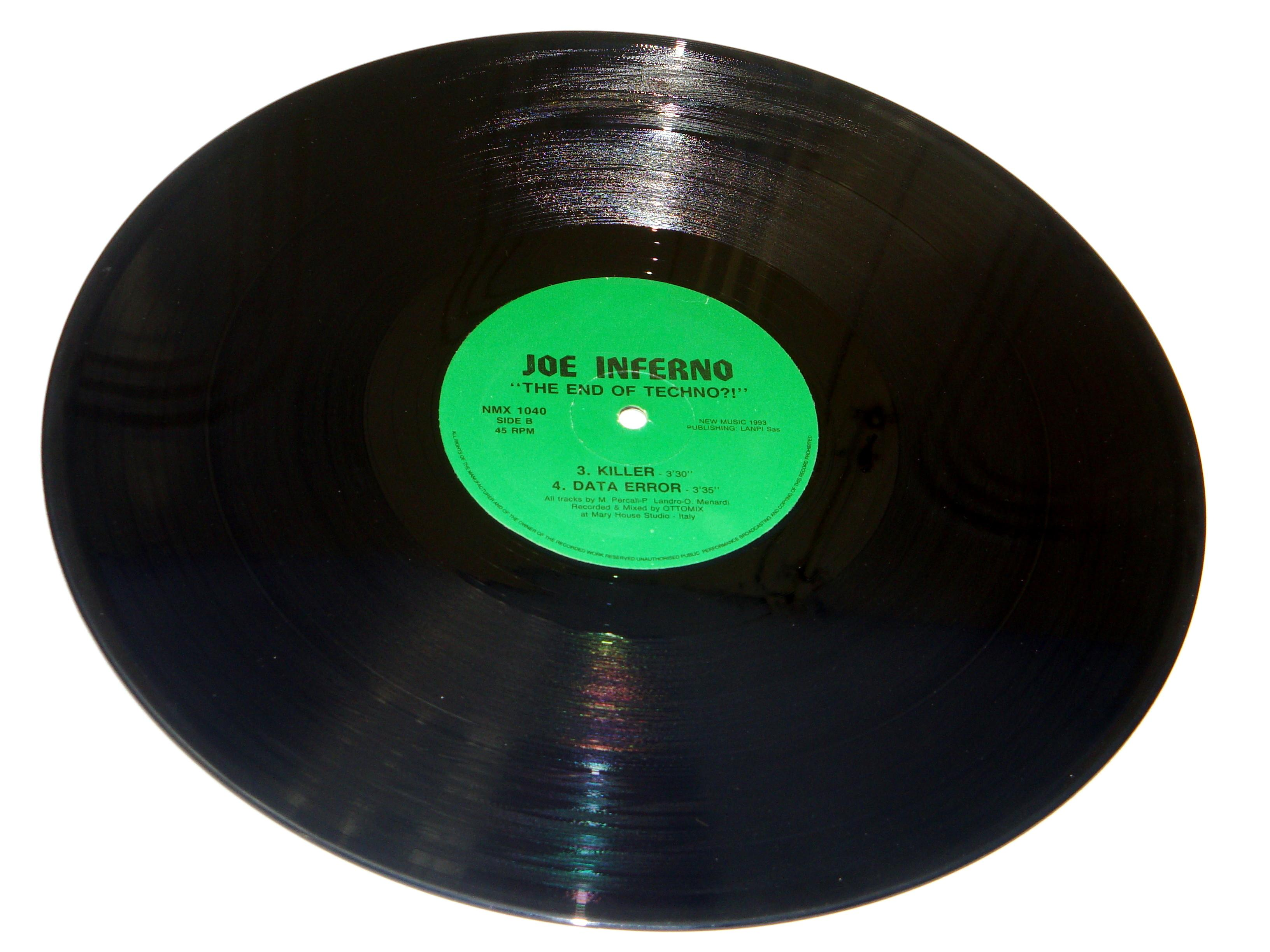 Maxi single of 12 inches and 45 RPM